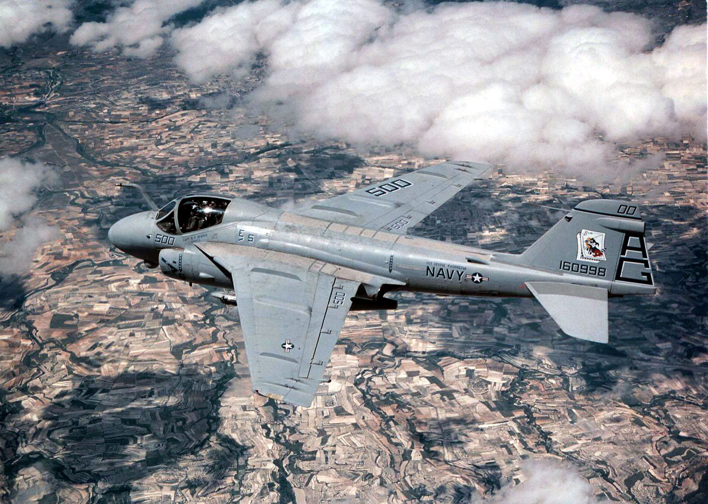 A U.S. Navy Grumman A-6E Intruder aircraft (BuNo 160998) from Attack Squadron 34 Blue Blasters, Carrier Air Wing 7 (CVW-7), navigates over the Spanish countryside during a low level training mission in support of Exercise MATADOR, a combined/joint US and Spanish exercise.